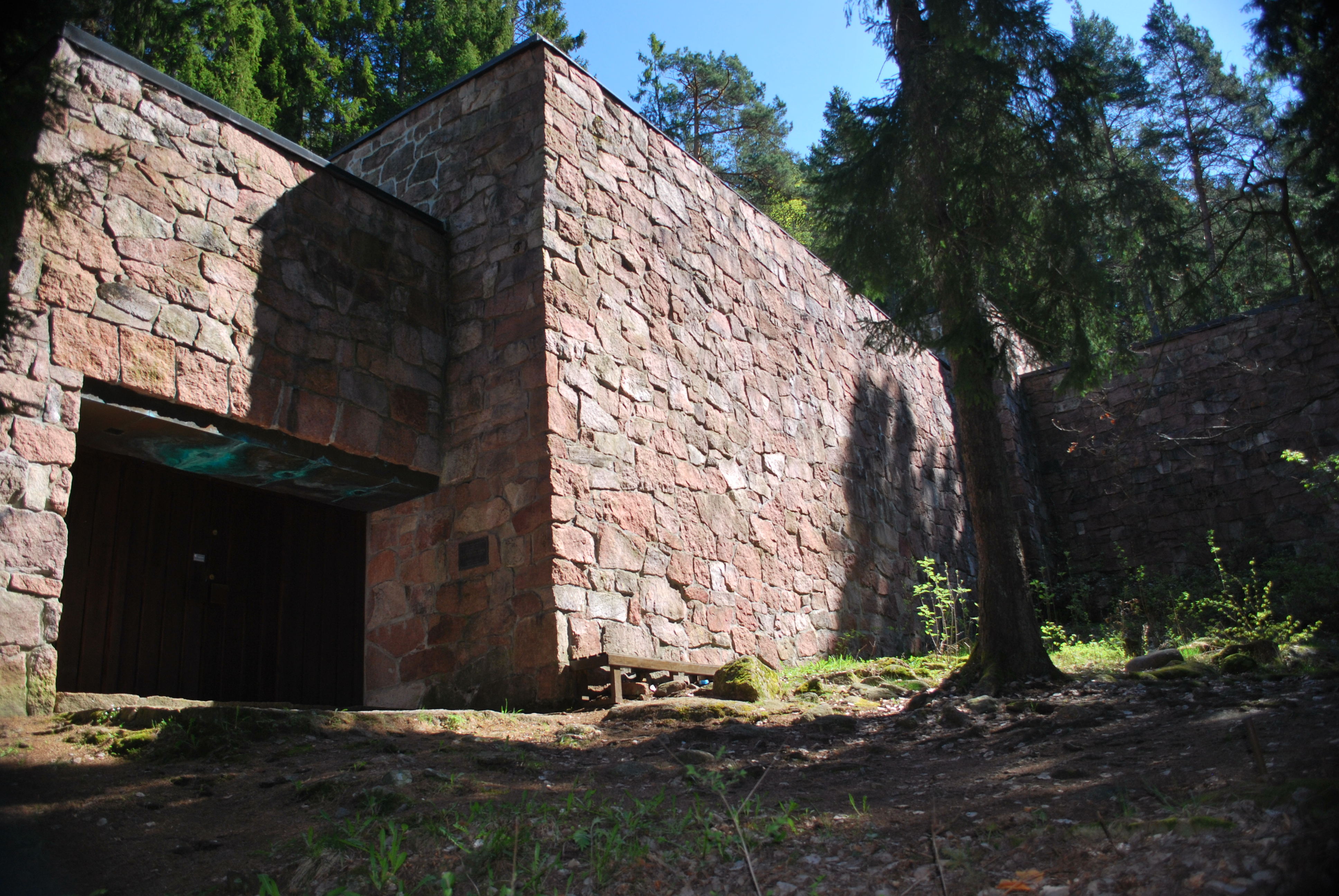 Holmsbu billedgalleri, south of the village Holmsbu, 1973, architect Bjart Mohr. Awarded A.C. Houens fonds diploma 1983